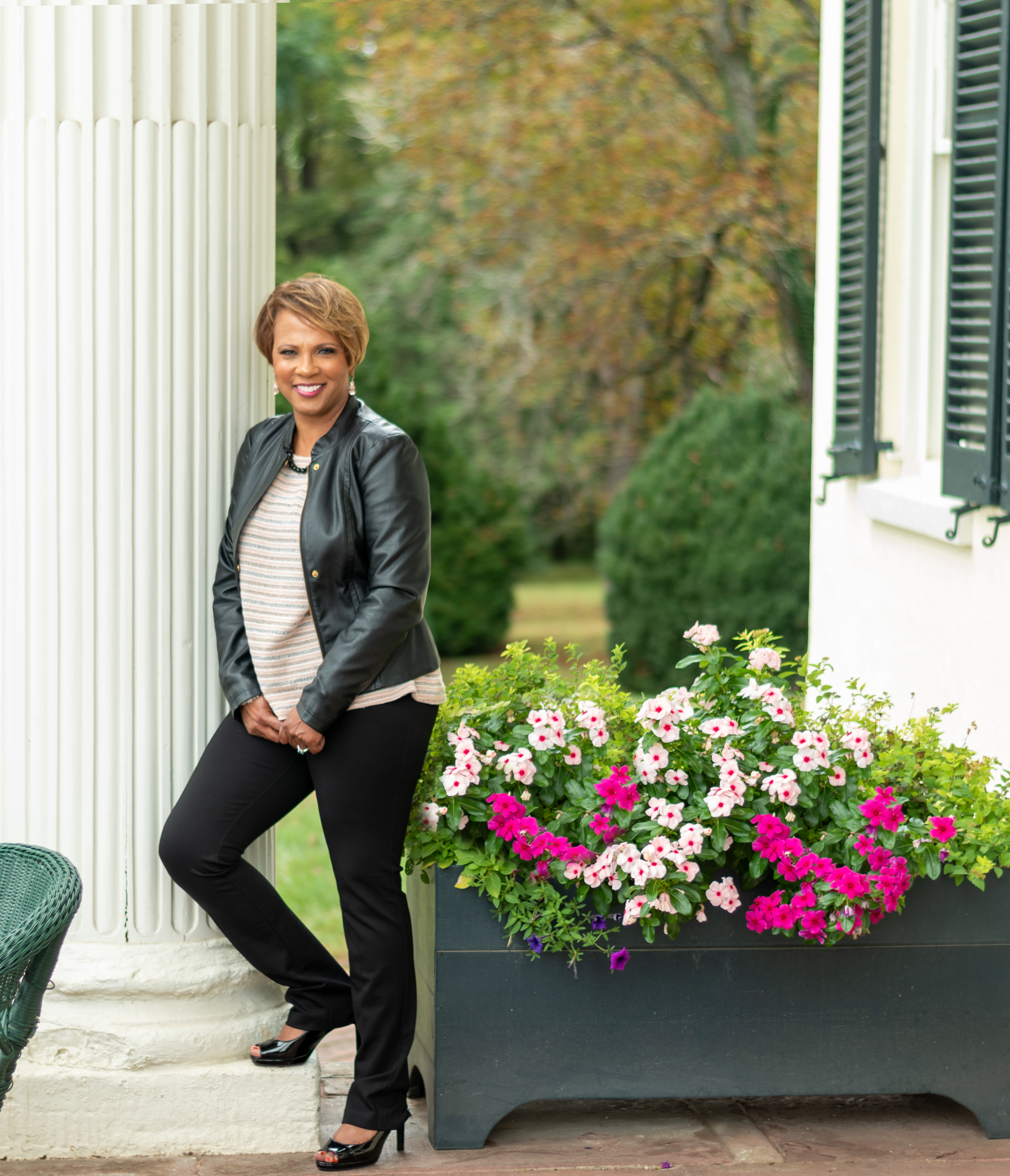 Sophia Nelson images